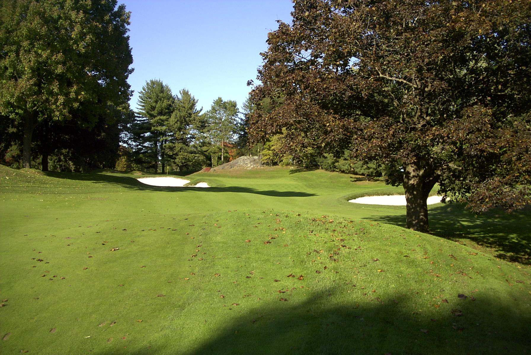 I took this photograph of the fairway of the 16th hole of the West Course at Westchester Country Club.